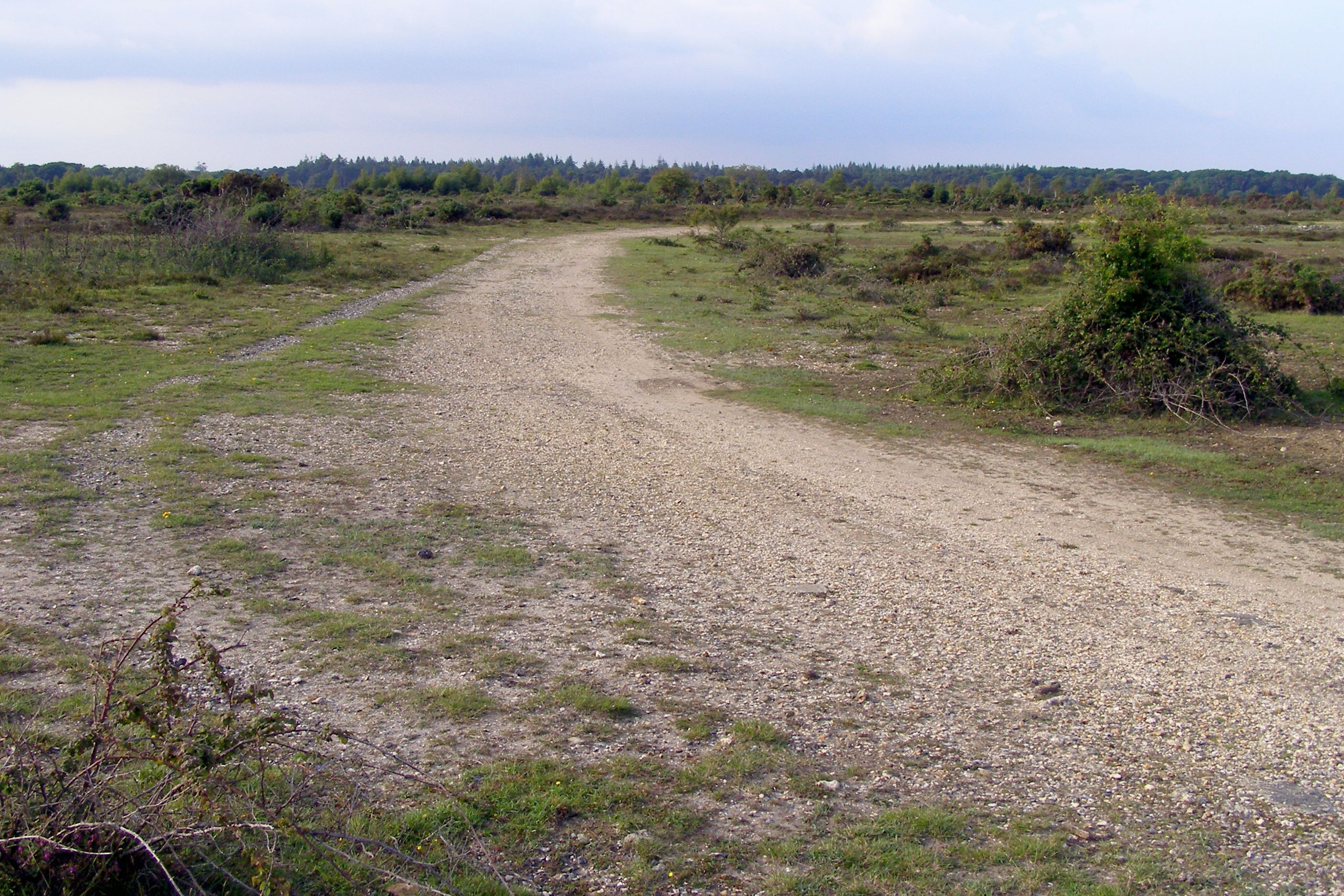 Looking north along the section of the gravel perimeter track at the western end of the 10-28 runway at RAF Beaulieu. Hawkhill Inclosure is in the distance.